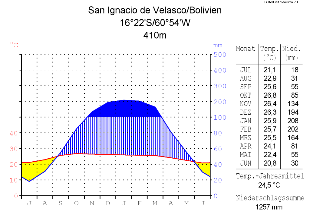 climate chart in the format by Walther and Lieth, metric, °Celsisus and millimeters, made with Geoklima 2.1